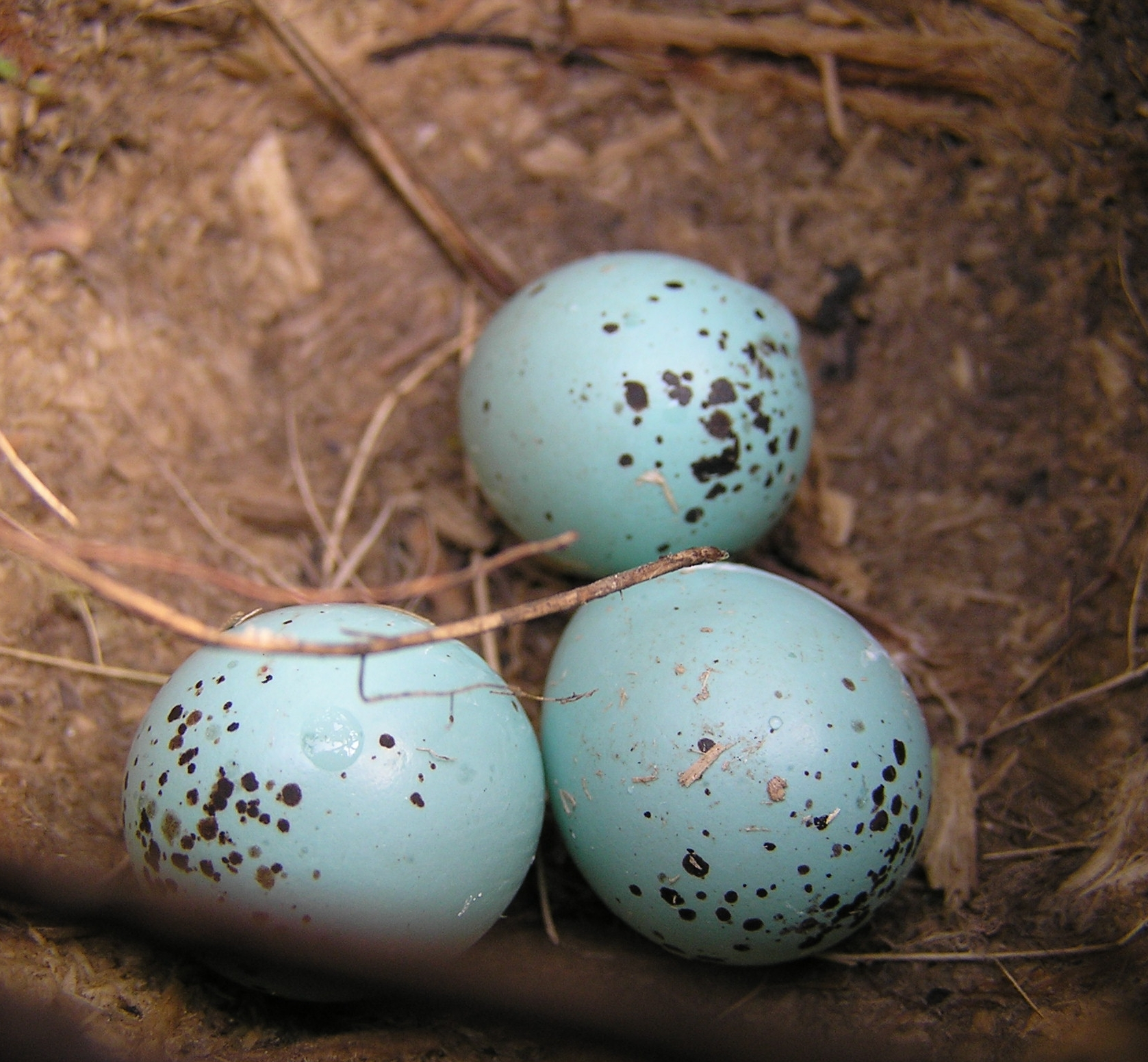 Three Song Thrush (Turdus philomelos) eggs in the nest.